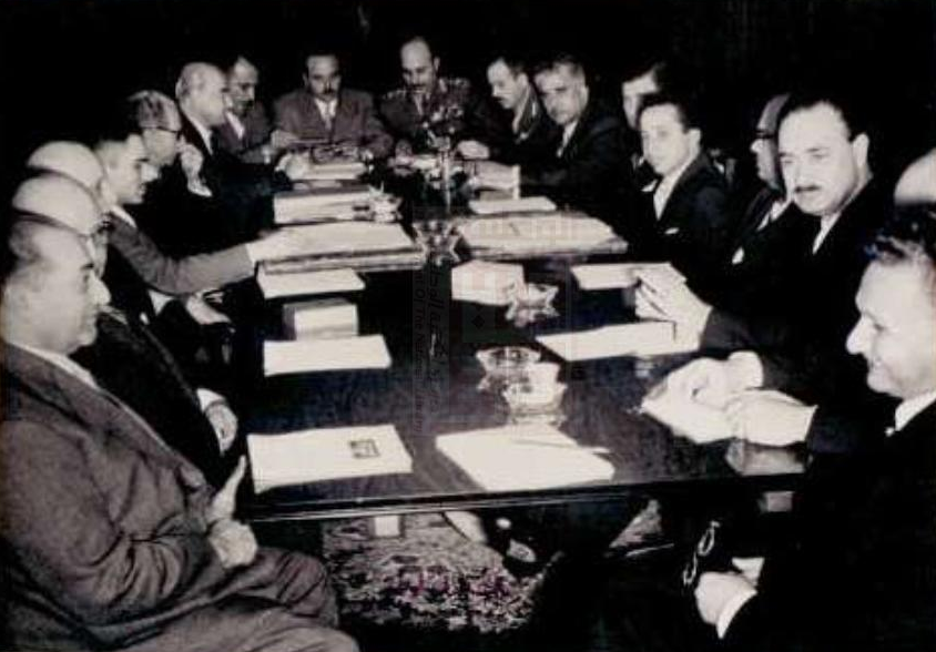 Arab Federation talks between Jordan and Iraq early 1958, King Hussein and King Faisal II present